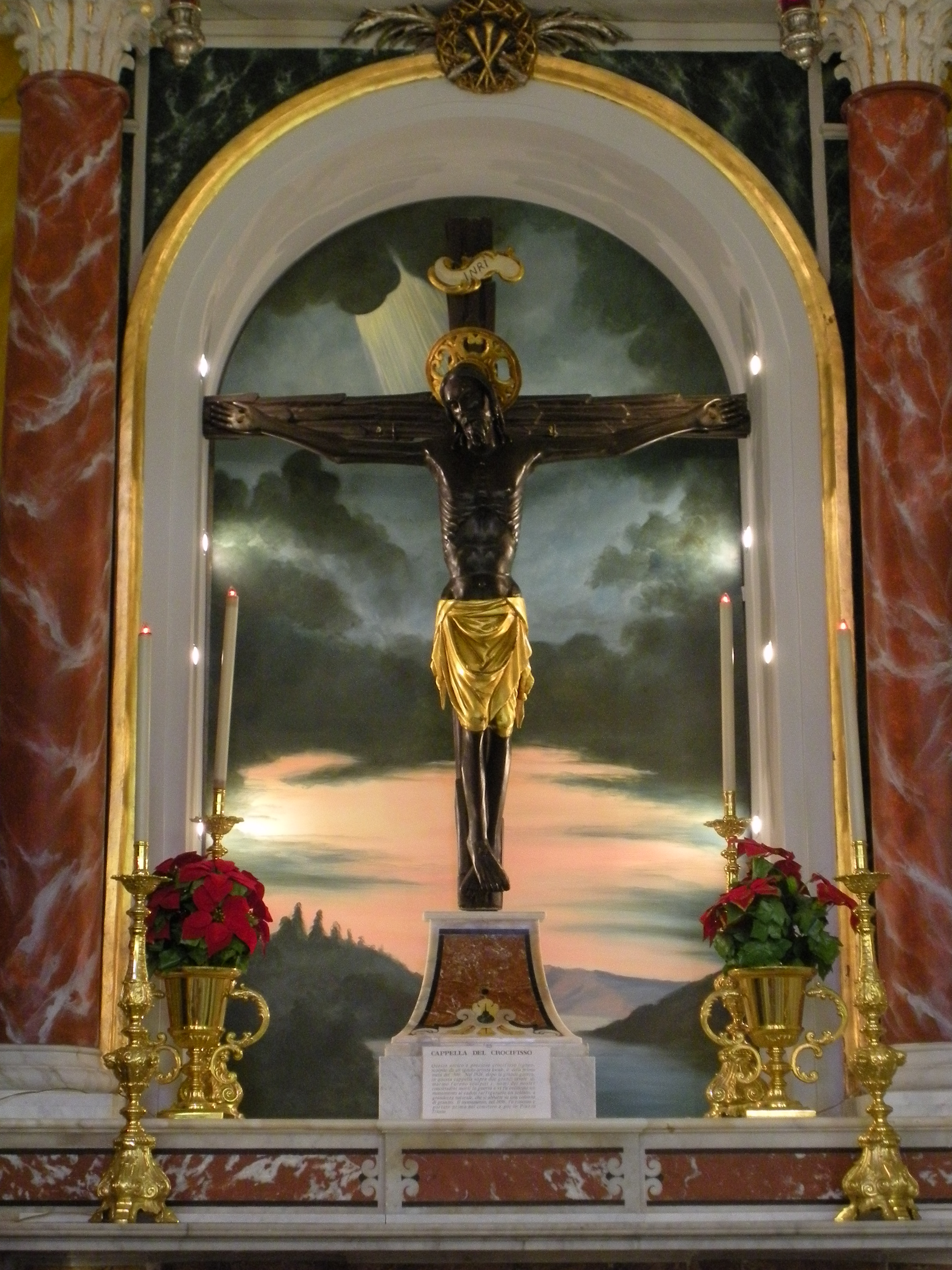 The Basilica of Santa Maria a Pugliano, Ercolano: The Black Crucifix of XIV century, wooden statue